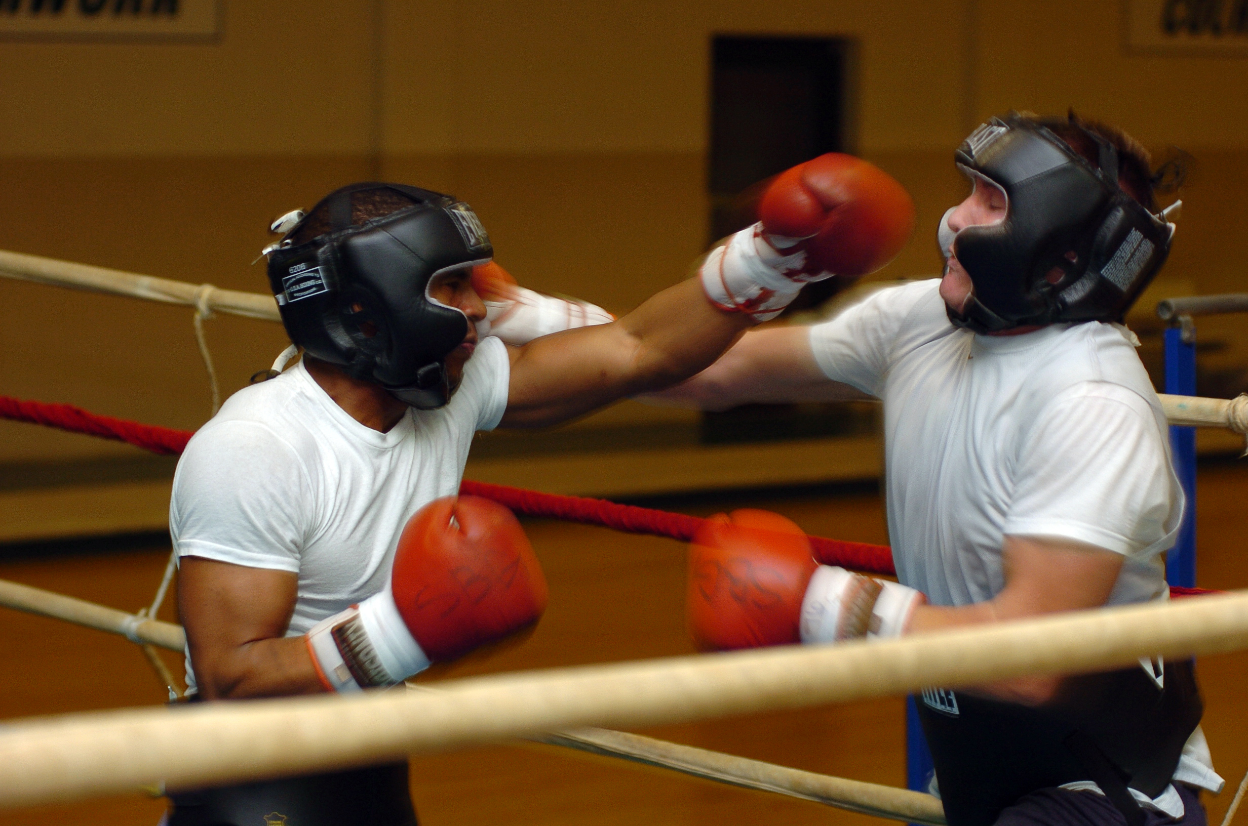 VIRGINIA BEACH, Va. (Nov. 17, 2007) Machinery Repairman Fireman Mike Hal throws a left hook at Damage Controlman Fireman Thomas Dooley during try outs for the All-Navy Boxing Team at Rockwell Gym at Naval Amphibious Base Little Creek. Both Sailors are stationed aboard the Nimitz-class nuclear-powered aircraft carrier USS Carl Vinson (CVN 70). Successful applicants will compete in the Armed Forces Boxing Championships scheduled for February 2008. U.S. Navy photo by Mass Communication Specialist Seaman Seth Scarlett (Released)